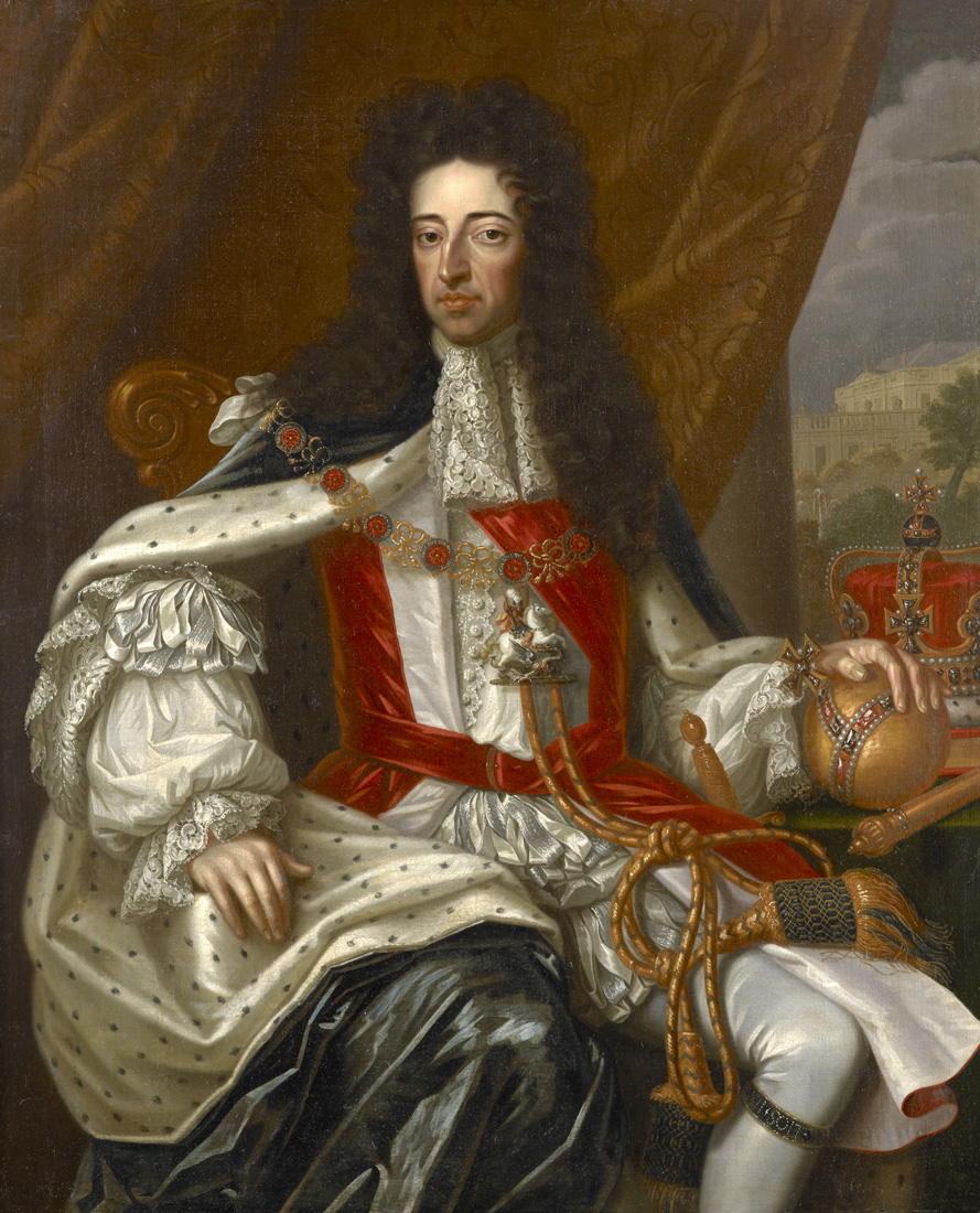 William III of England seated in Garter robes, with the Regalia of England on a table beside him.